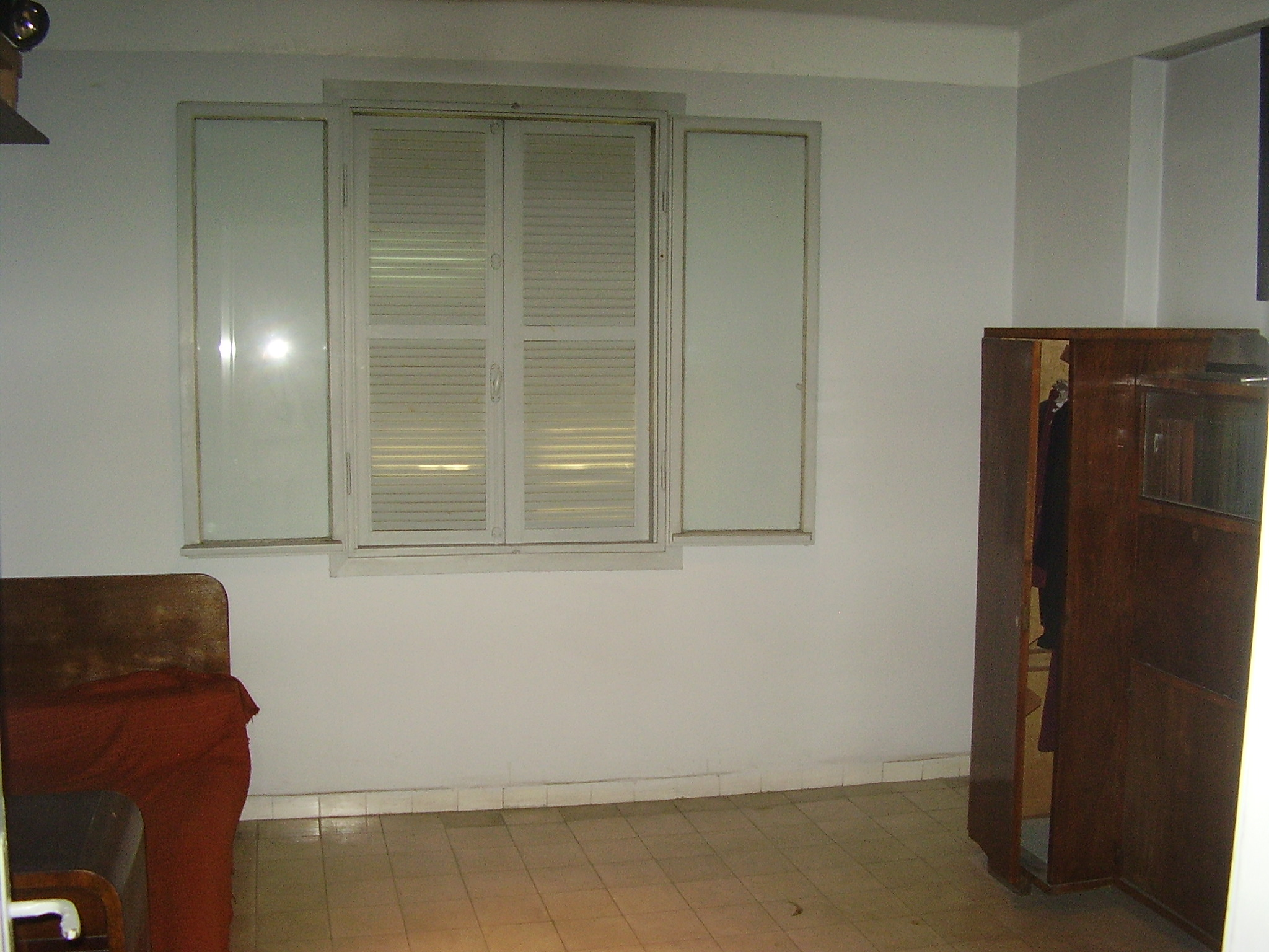 Lehi Museum in Tel Aviv. the room where Abraham Stern, Lehi commander, was murderded by a British policeman on 12/2/1942. Blood stain can be seen on the floor. Bullet hole can be seen on the right side of the window frame. He hided himself in the wardrobe (right).